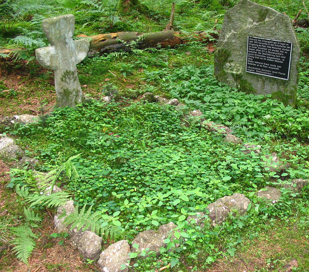 momorial stone for those who died during medieval pest pestilence